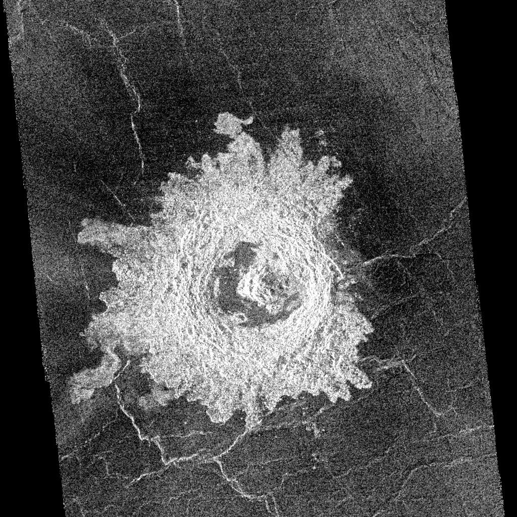 This complex crater in the Navka region of Venus was mapped by Magellan on September 26-27, 1990 during orbits 459 and 460. The crater has a diameter of 22 kilometers (13.6 miles) and is located at latitude 5.75 degrees south, longitude 349.6 degrees east. It has the terraced walls, flat radar-dark floor, and central peak that are characteristic of craters classified as 'complex'. The central peak on its floor is unusually large. Flow-like deposits extend beyond the limits of the coarser rim deposits on its west and southwest. Like about half of the craters mapped by Magellan to date, it is surrounded by a local, radar-dark halo. Buck, the proposed name for this crater honors Pearl S. Buck, American author (1892-1973). Proposed names for all features on planetary bodies are provisional until formally adopted by the International Astronomical Union.